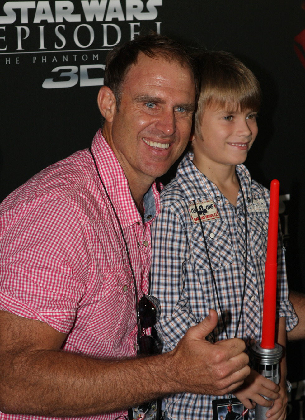 Australian cricketer Matthew Hayden at Star Wars: Episode 1